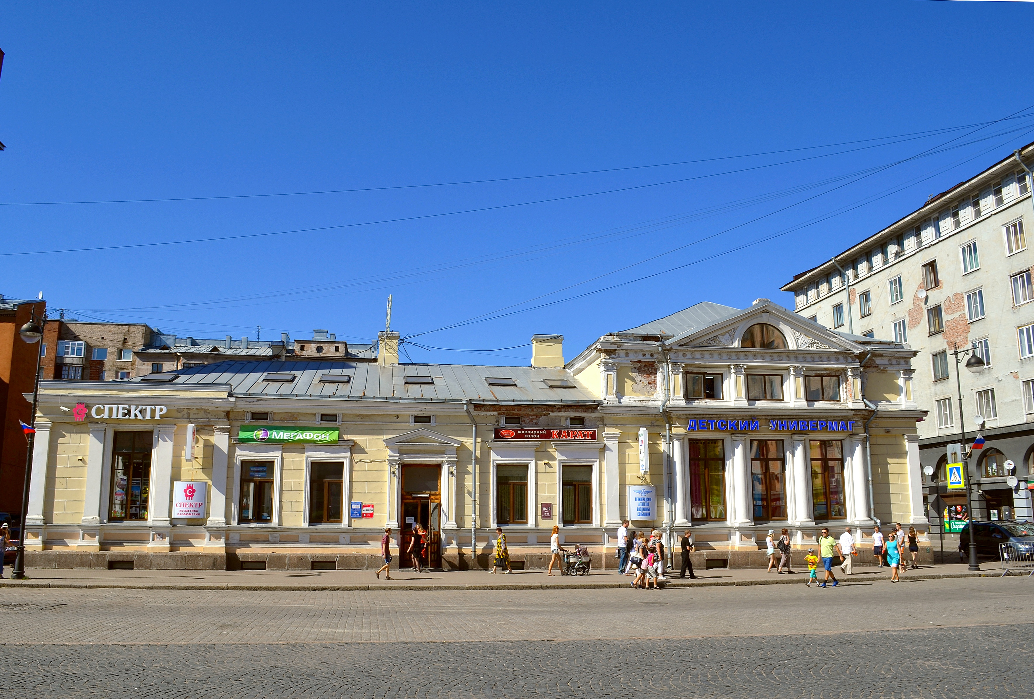 Vyborg. Ushakova street, 6. The building of the architect Blomqvist